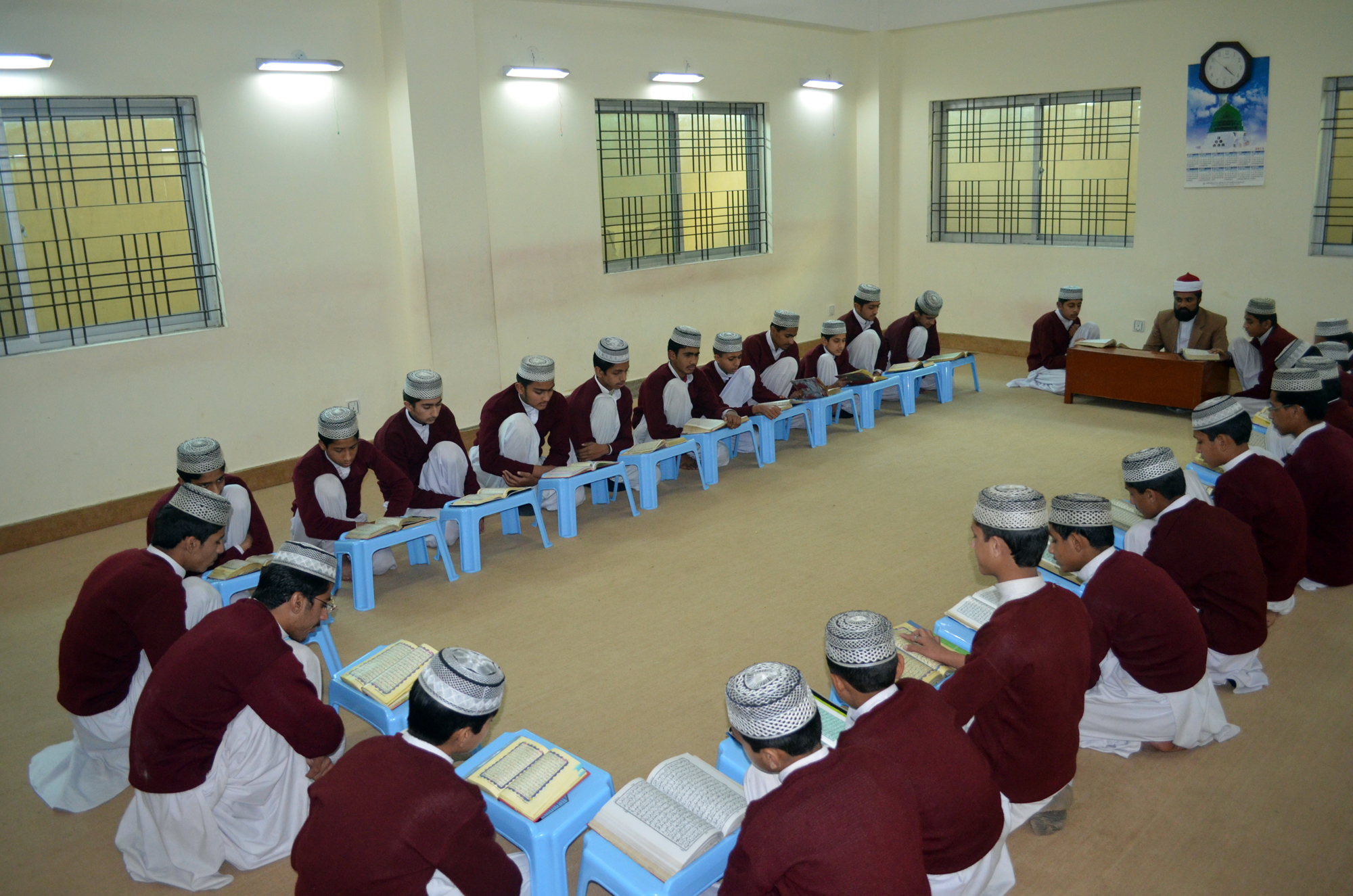 Licensing Policy about Wikipedia This is to clarify that all contents and images of this website can be used with reference of this website on Wikipedia under the free license: Creative Commons Attribution-Share Alike 4.0 International.